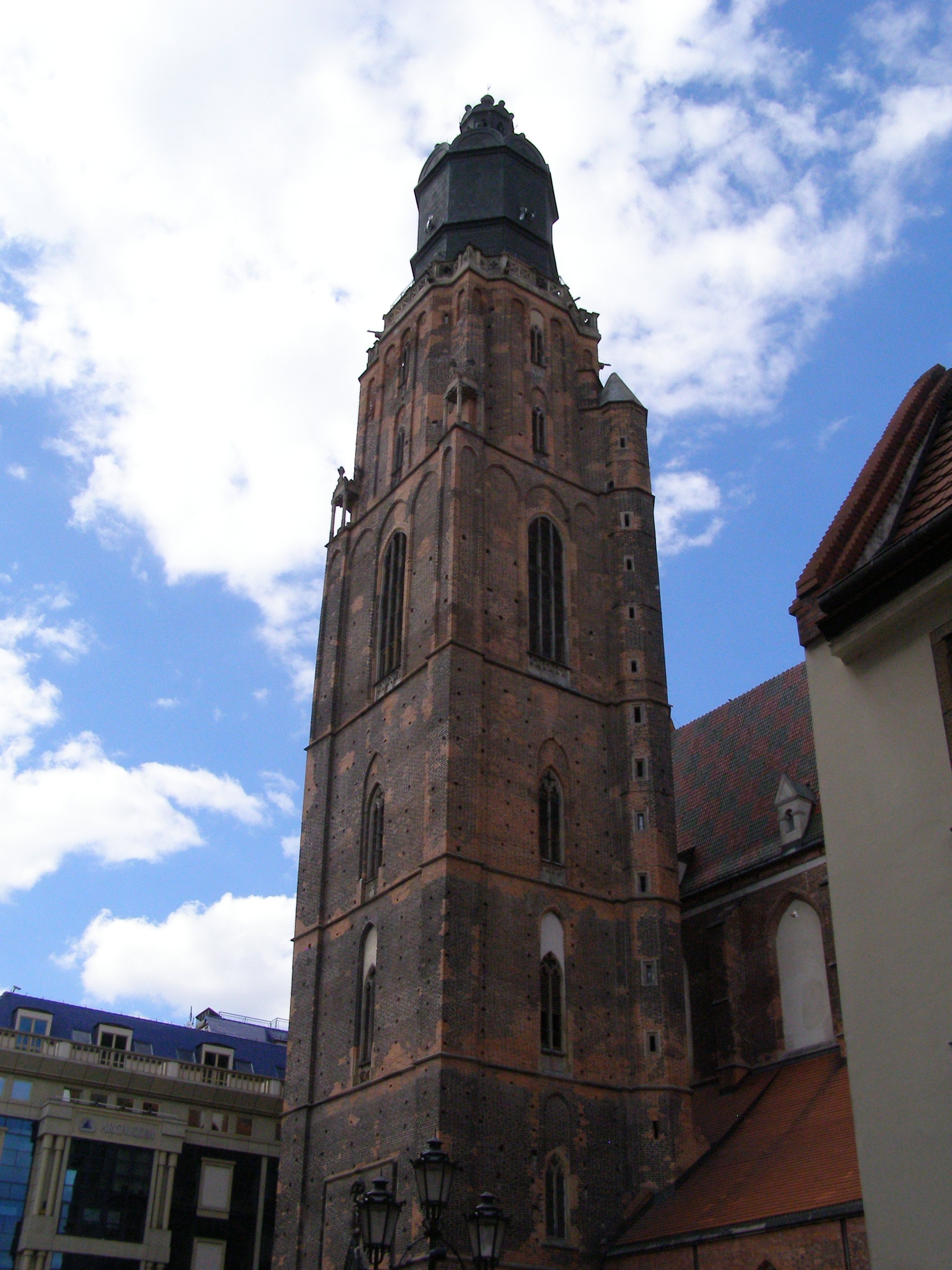 Wrocław - St. Elizabeth garrison church